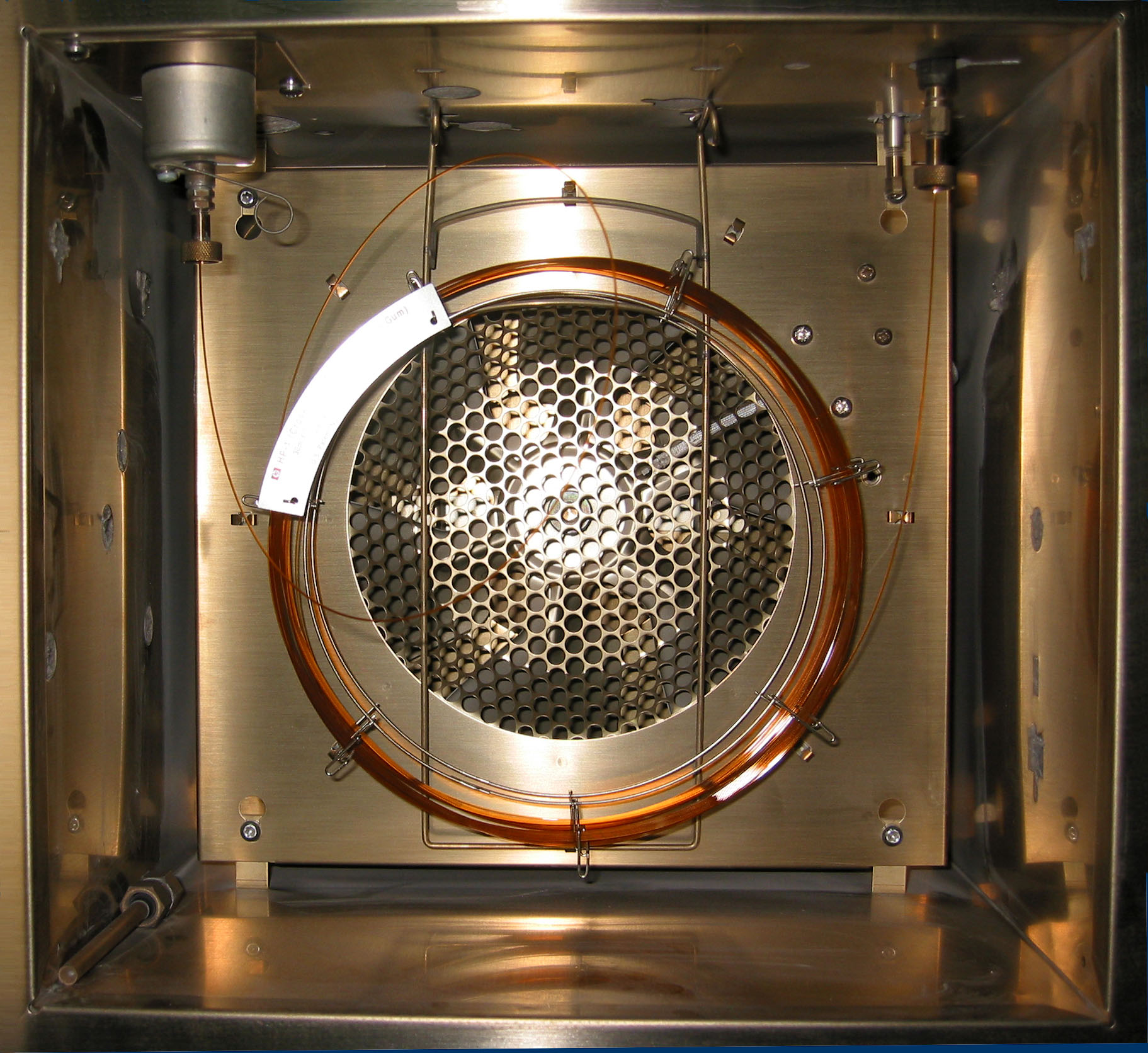 Gass chromatographer - oven with capliary column inside. The apparatus is the property of CBMiM PAN